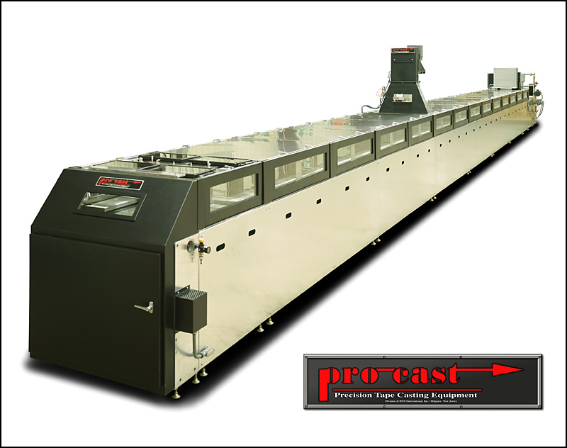 Procast Tape Caster by HED International, Inc.